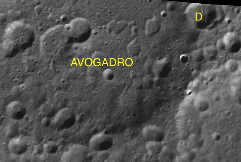 Part of the chart LAC-18 used for the presentation